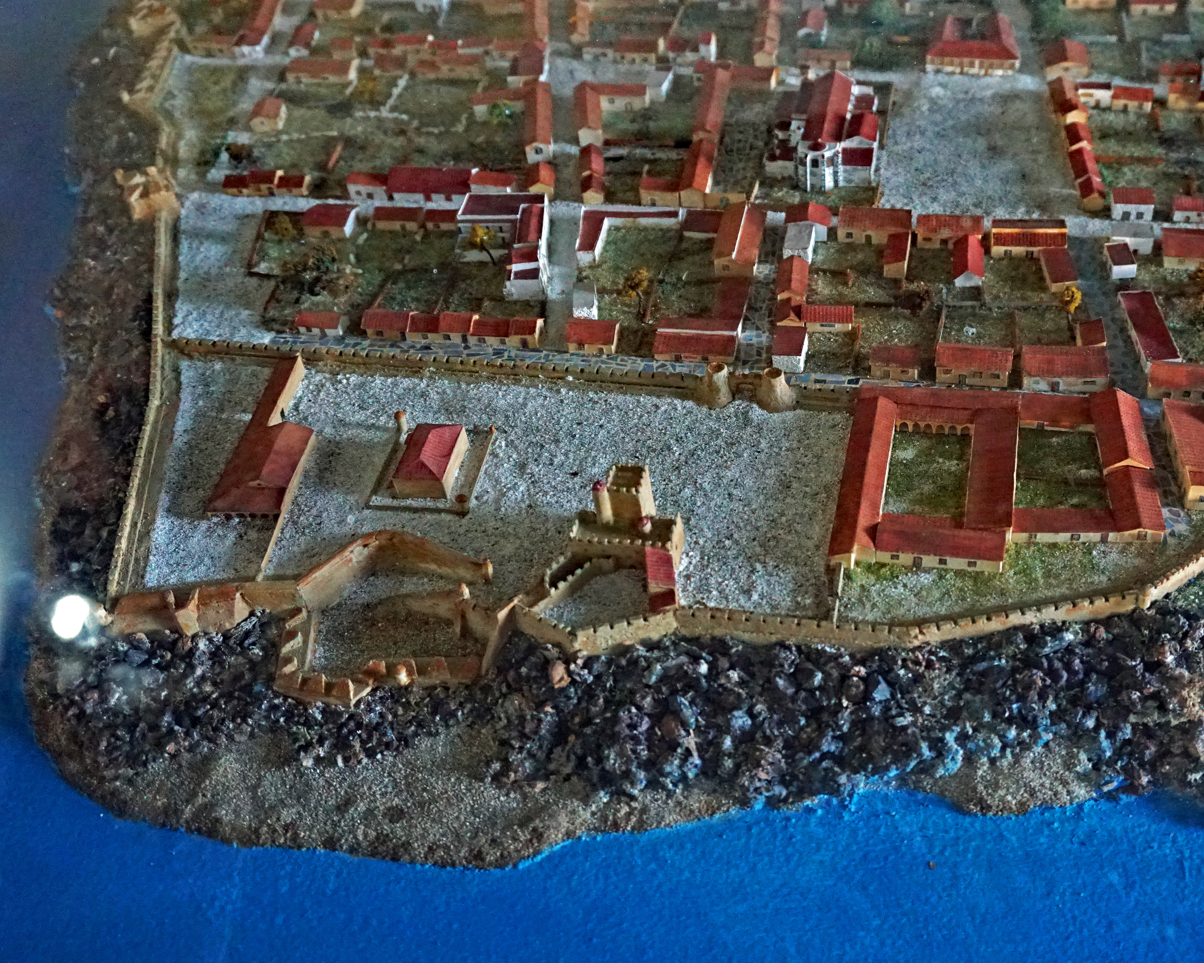 Scale model of Fortaleza Ozama circa 1785, Ciudad Colonial de Santo Domingo. The Catedral Primada de América is shown in the top at the side of of the main city square (today's Parque Colón). Model made by Don Tomás López and exhibited at the new Museo de las Casas Reales. Dominican Republic.